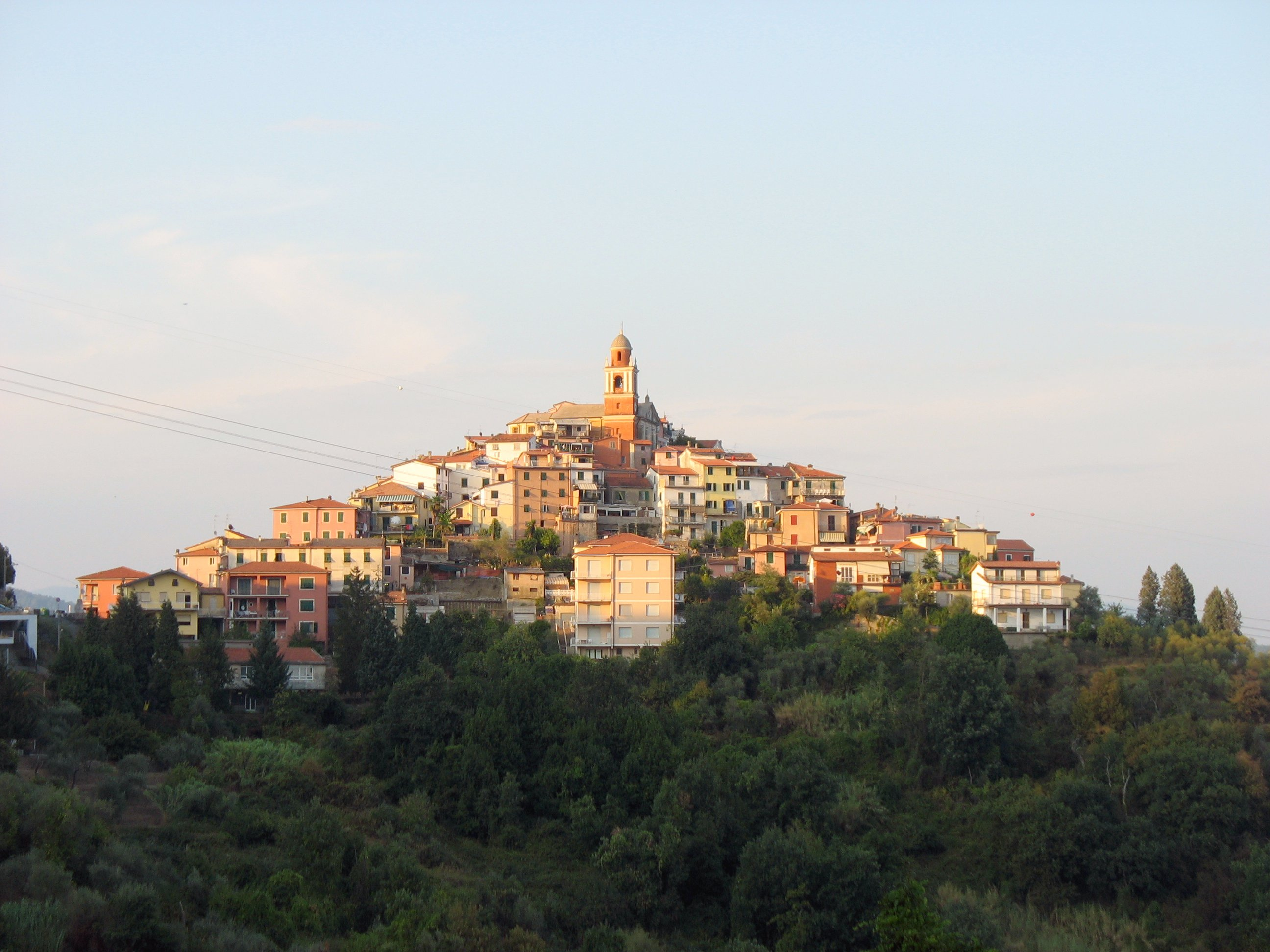 Valeriano Lunense is a village (frazione) of about 500 inabitants in the comune of Vezzano Ligure in the province of La Spezia, Italy.